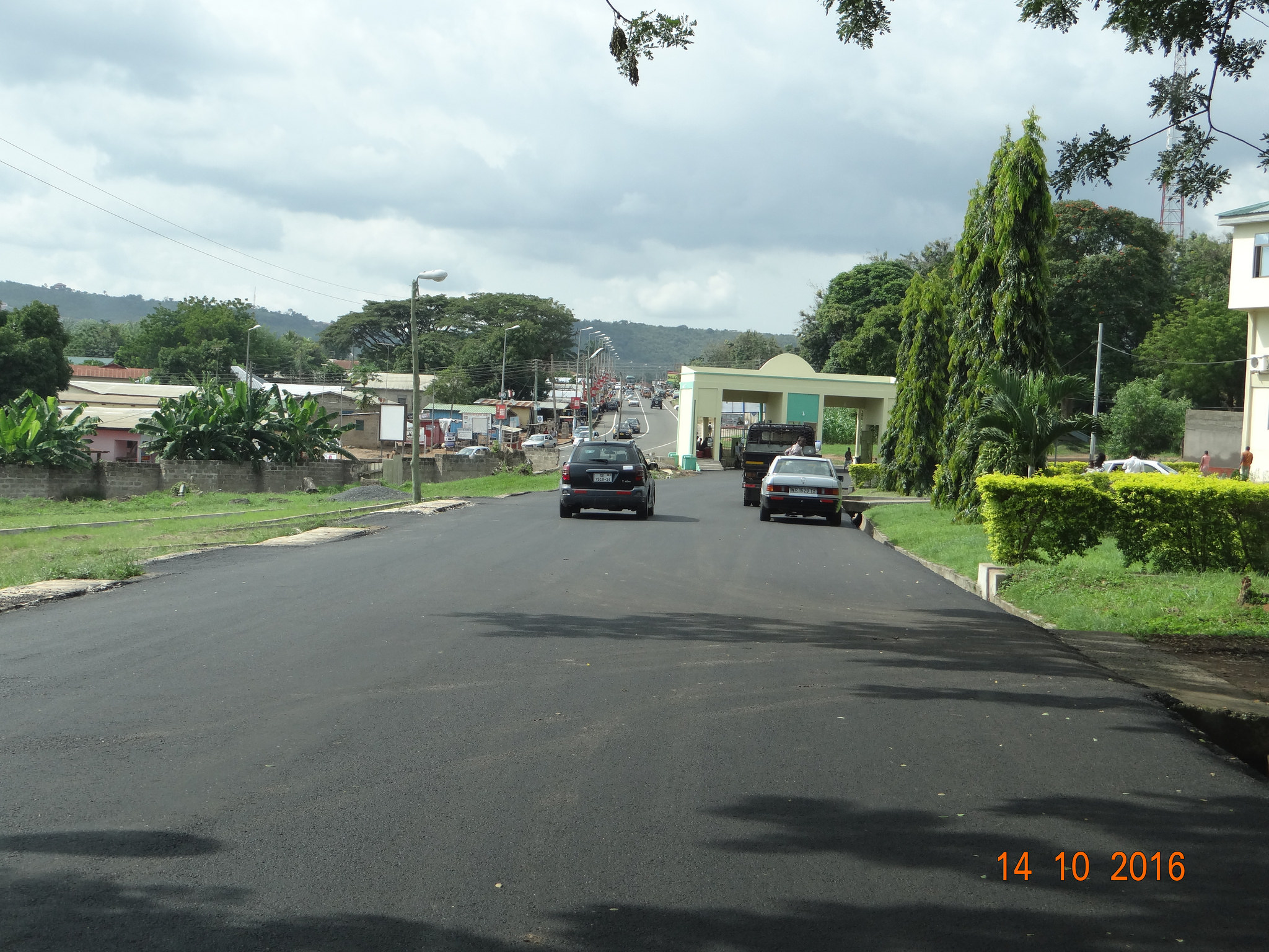 Mawuli School